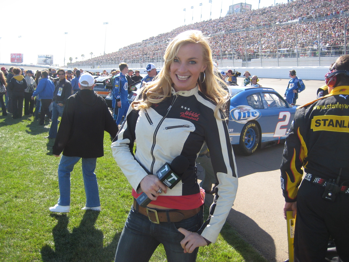 Mieke Buchan (Mieke Van Every) Off The Strip With Mieke Buchan shoot